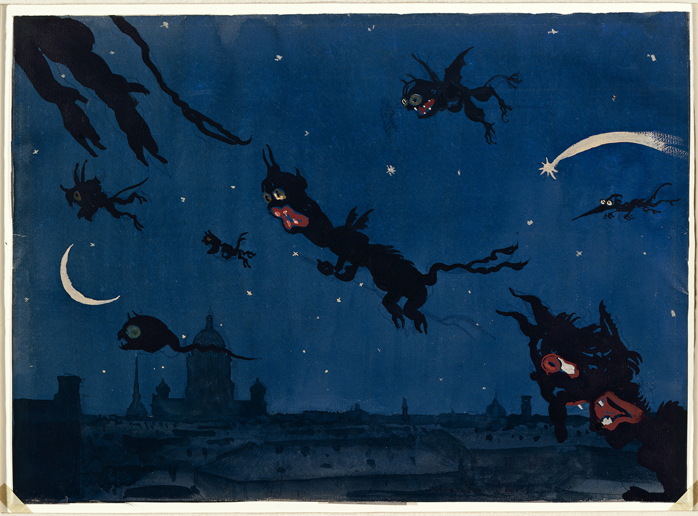 Petrushka drop curtain designed by A. Benois Ночной Петербург. Эскиз декорации к балету И. Стравинского Петрушка Alexandre Benois, Russian, 1870–1960, Design for the front cloth from Petrushka (Copenhagen revival), 1925, pen, ink, and tempera on paper